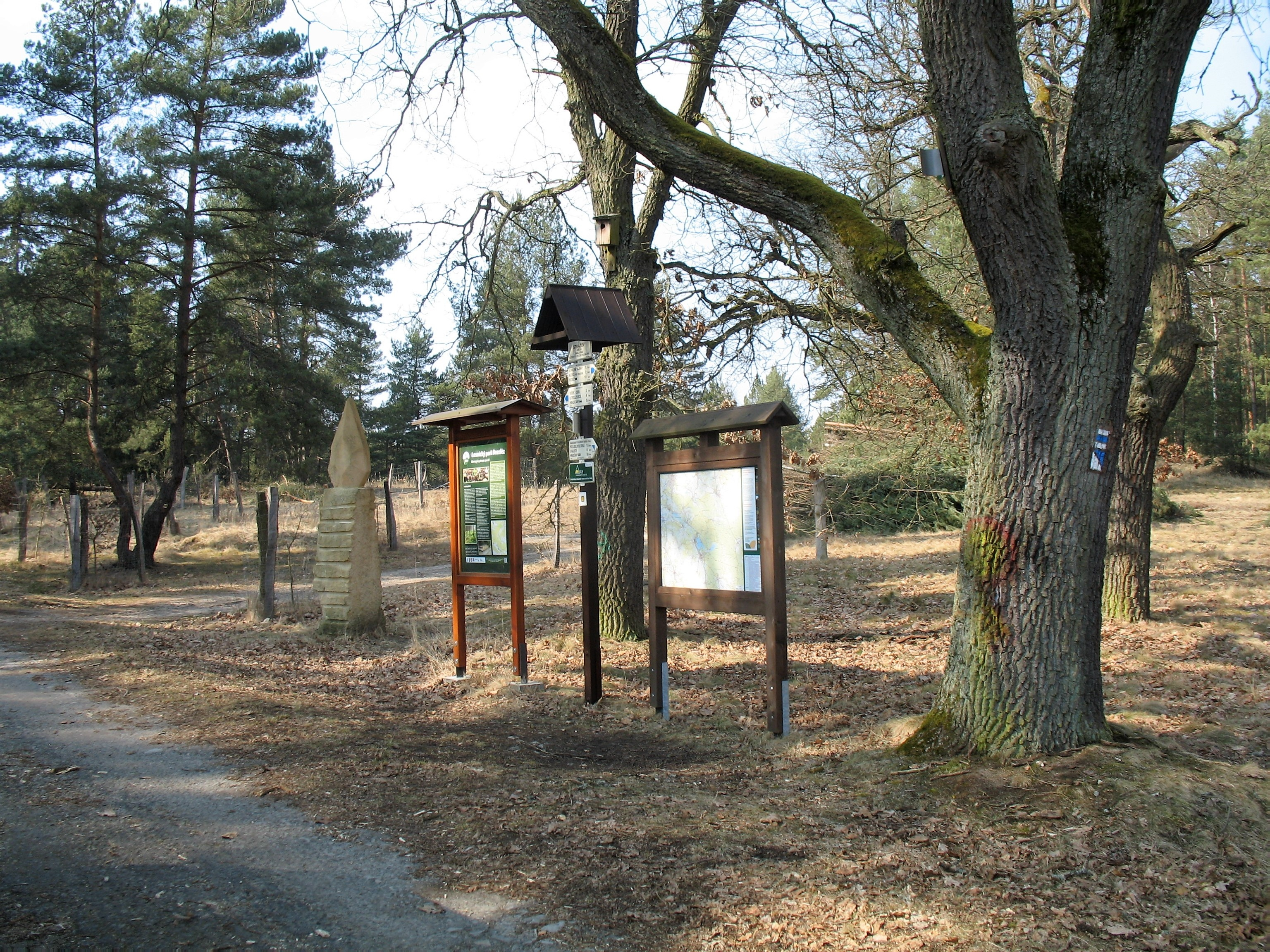 Abandoned Village Strážov, Ralsko, Czech Republic